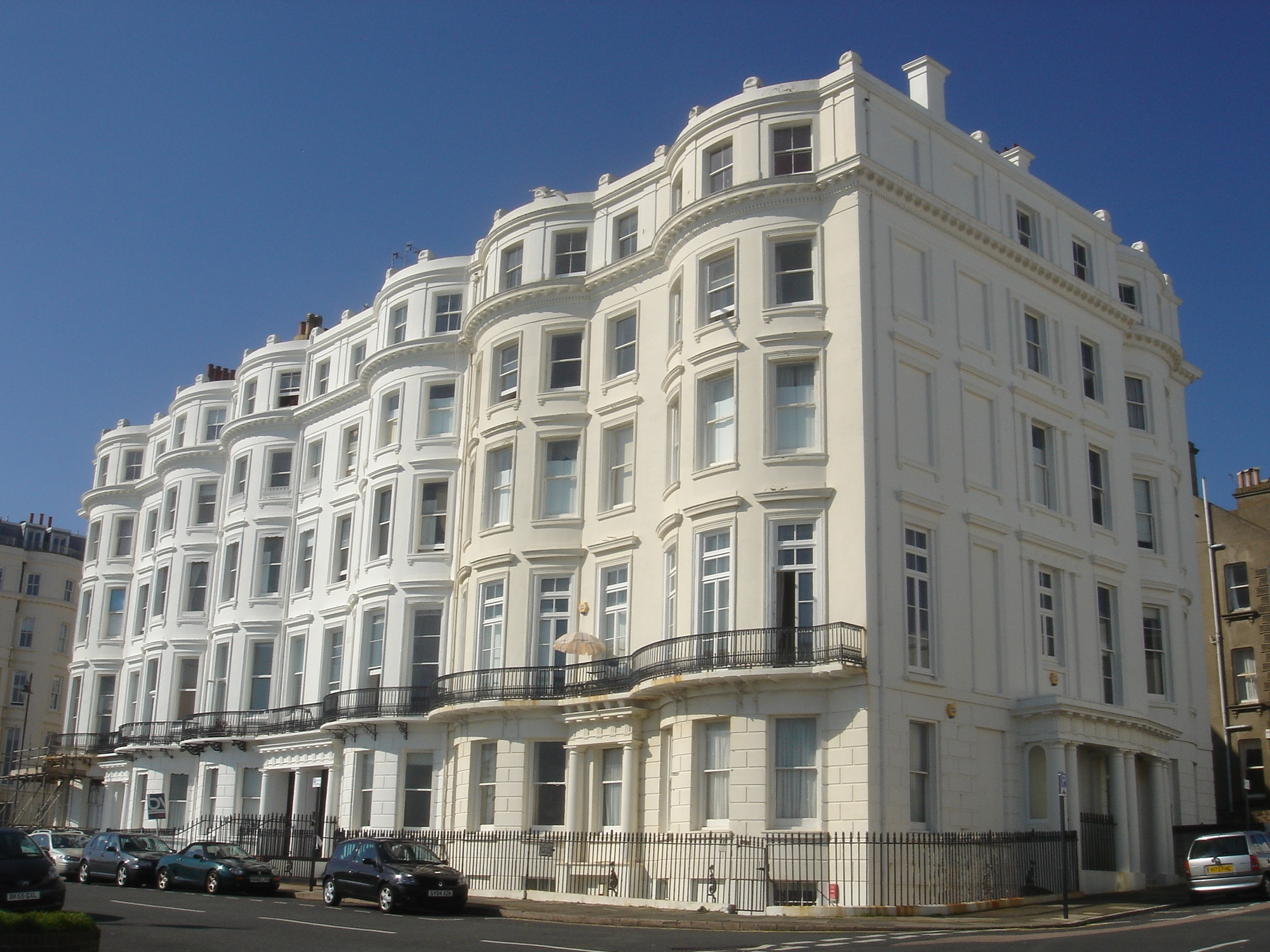 Clarendon Terrace, Kemp Town, City of Brighton and Hove, East Sussex, England. An outlying part of Thomas Read Kemp's huge Kemp Town development of the 19th century; this part was built in the early 1850s, possibly by George Cheeseman junior. Listed at Grade II by English Heritage (IoE Code 480515)